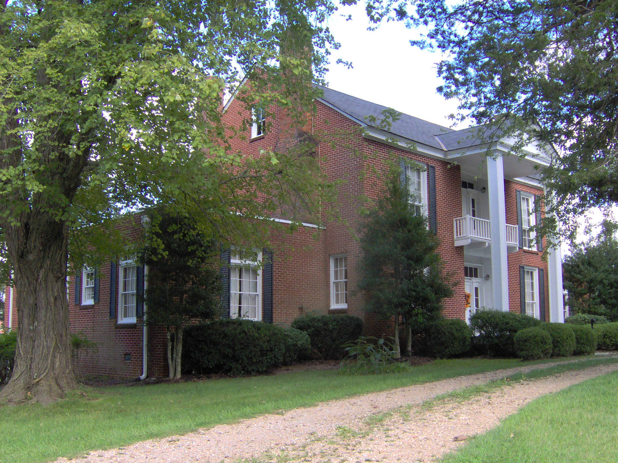 Antebellum house at the old White Plains plantation near the U.S. town of Algood, Tennessee.